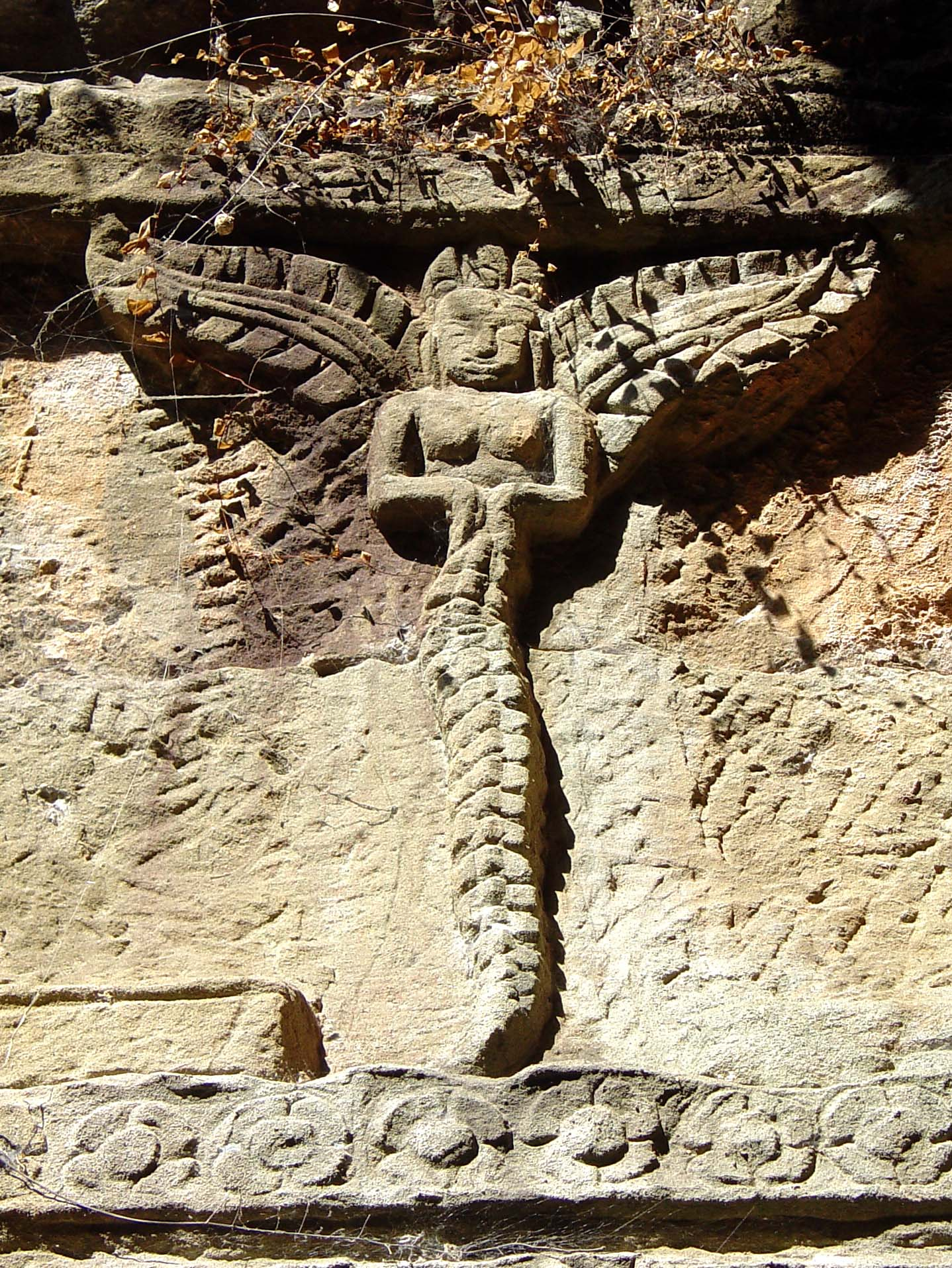 A crowned kinnara, a celestial hybrid of bird and human, spreads her wings behind her as she dangles a long garland below. The rest of the scene has been lost.